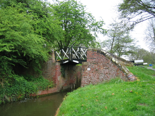 Dick's Lane Bridge One of the characteristic Stratford-upon-Avon split bridges at the tail of the lock. These bridges were built with a gap in the middle to allow the towing line to drop down the middle in the days of horse drawn narrow boats. This meant that the bridge did not need to be wide enough to have a towpath (and thus was cheaper to build) and the boat could pass through without unhitching the tow line. Needless to say such bridges can only carry light loads.